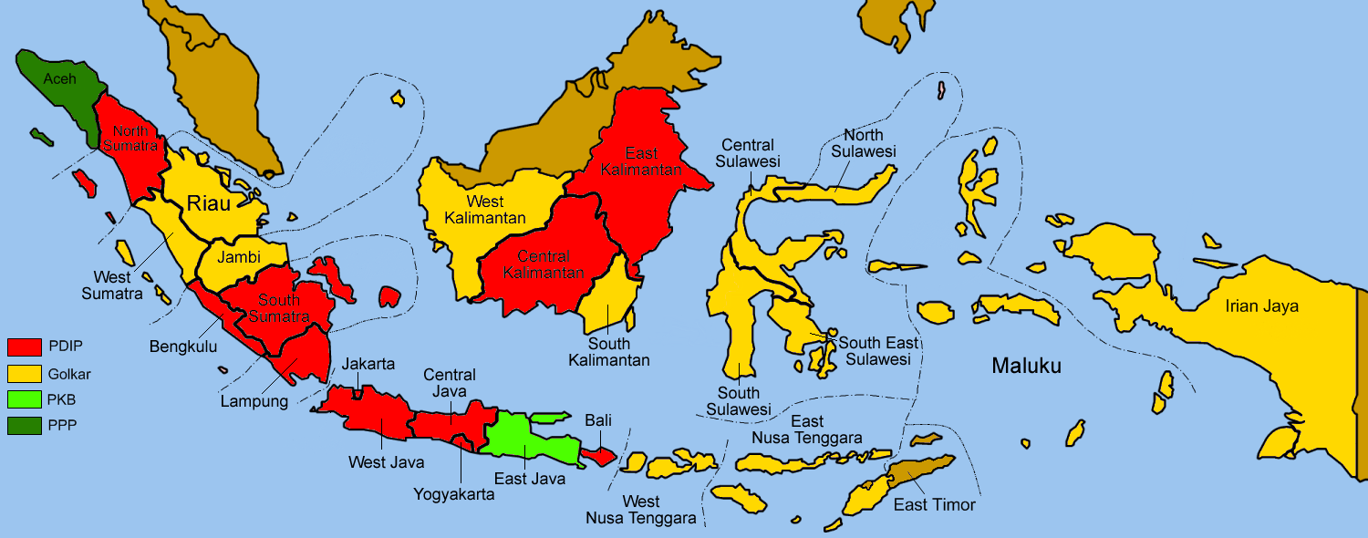 Map showing parties with the largest share in each province in the 1999 Indonesian legislative election. Adapted from Indonesia provinces english.png created by User:Golbez